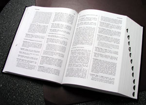 Black's law Dictionary, photo by user:alex756